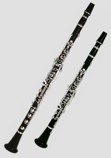 Basset clarinet and normal clarinet